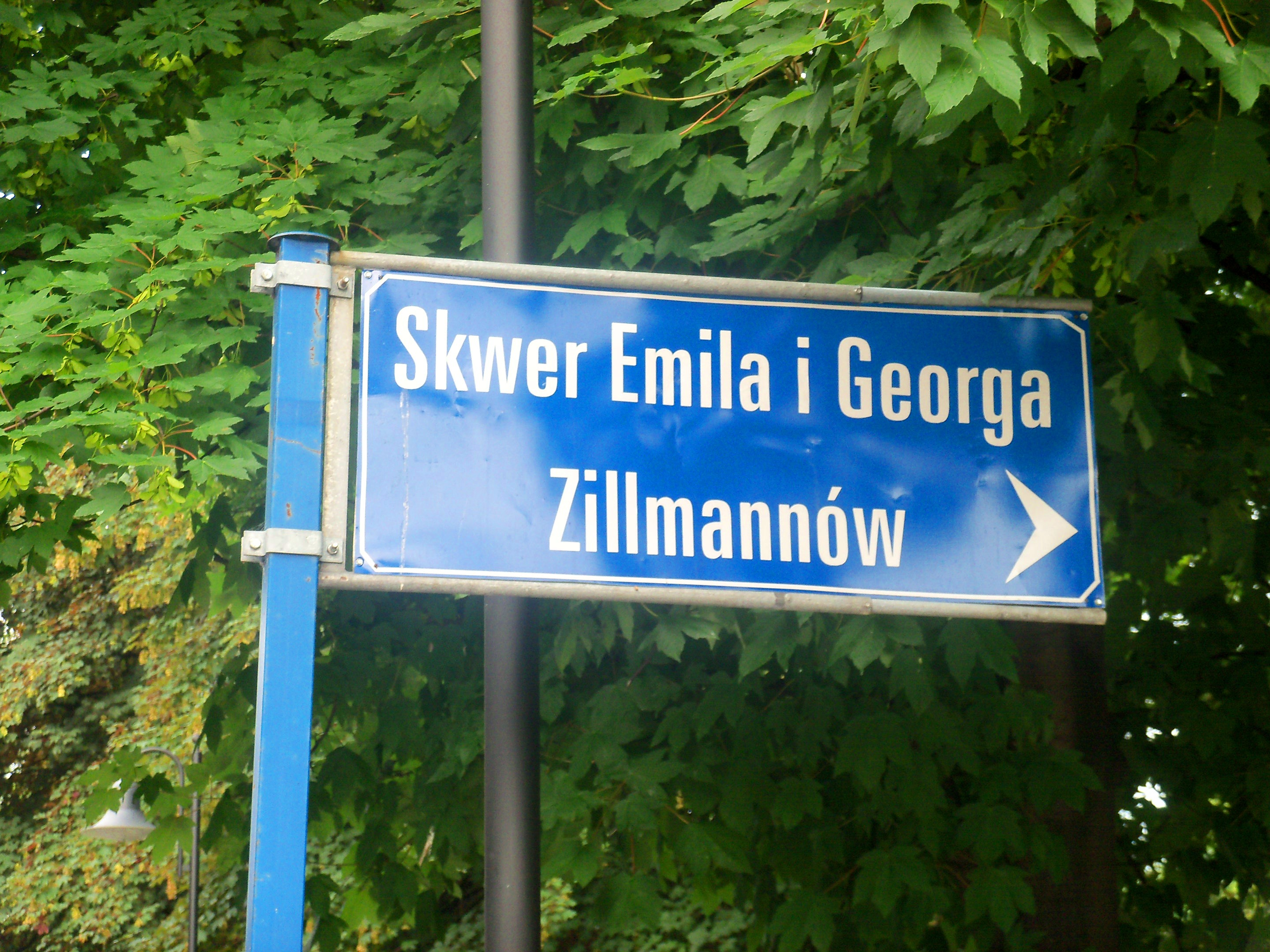 Zillmannów Square in Katowice - Nikiszowiec